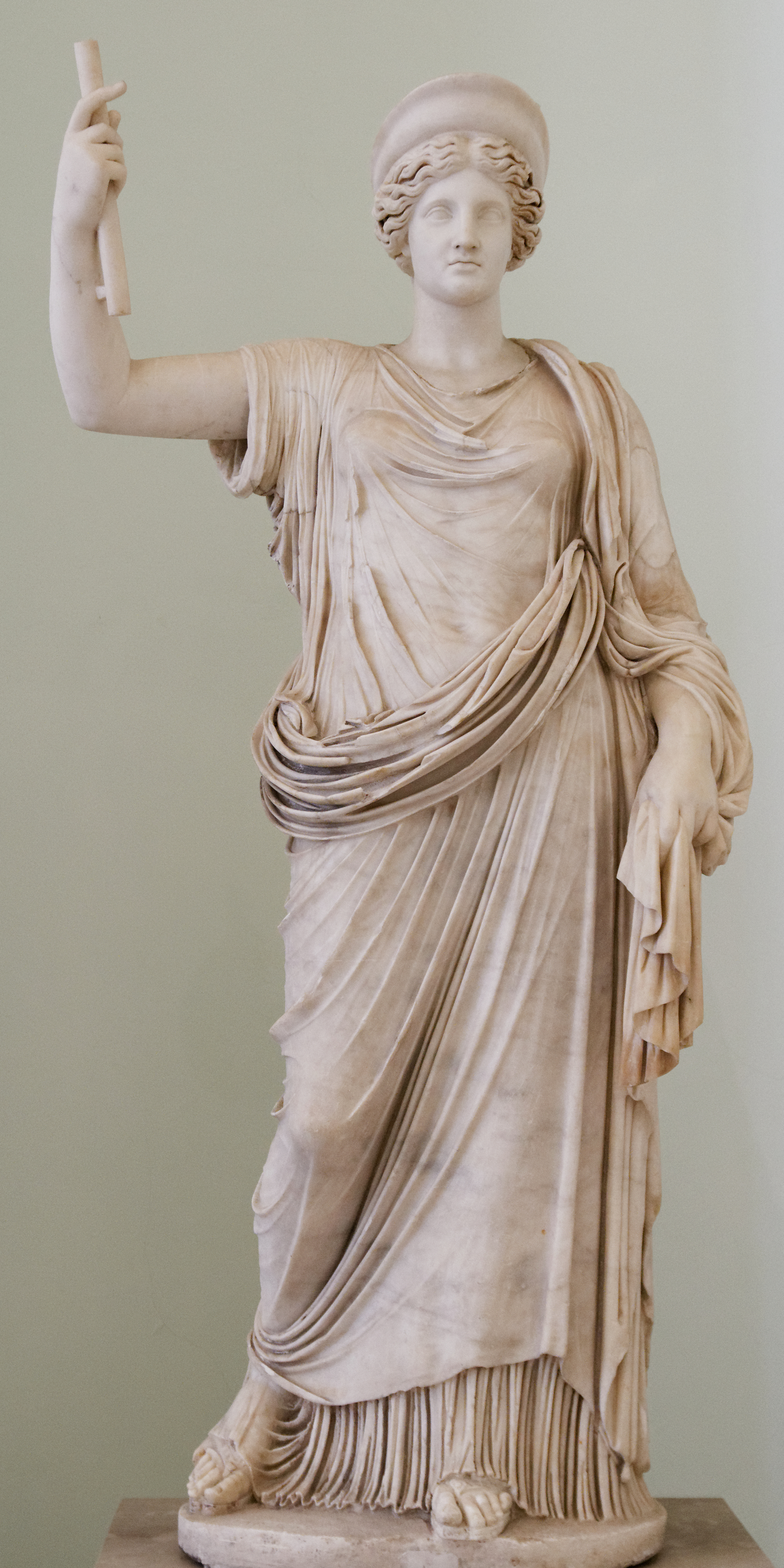 Statue of Hera of the Ephesus-Vienna type. Roman copy of the Imperial era after a Greek Classical original.